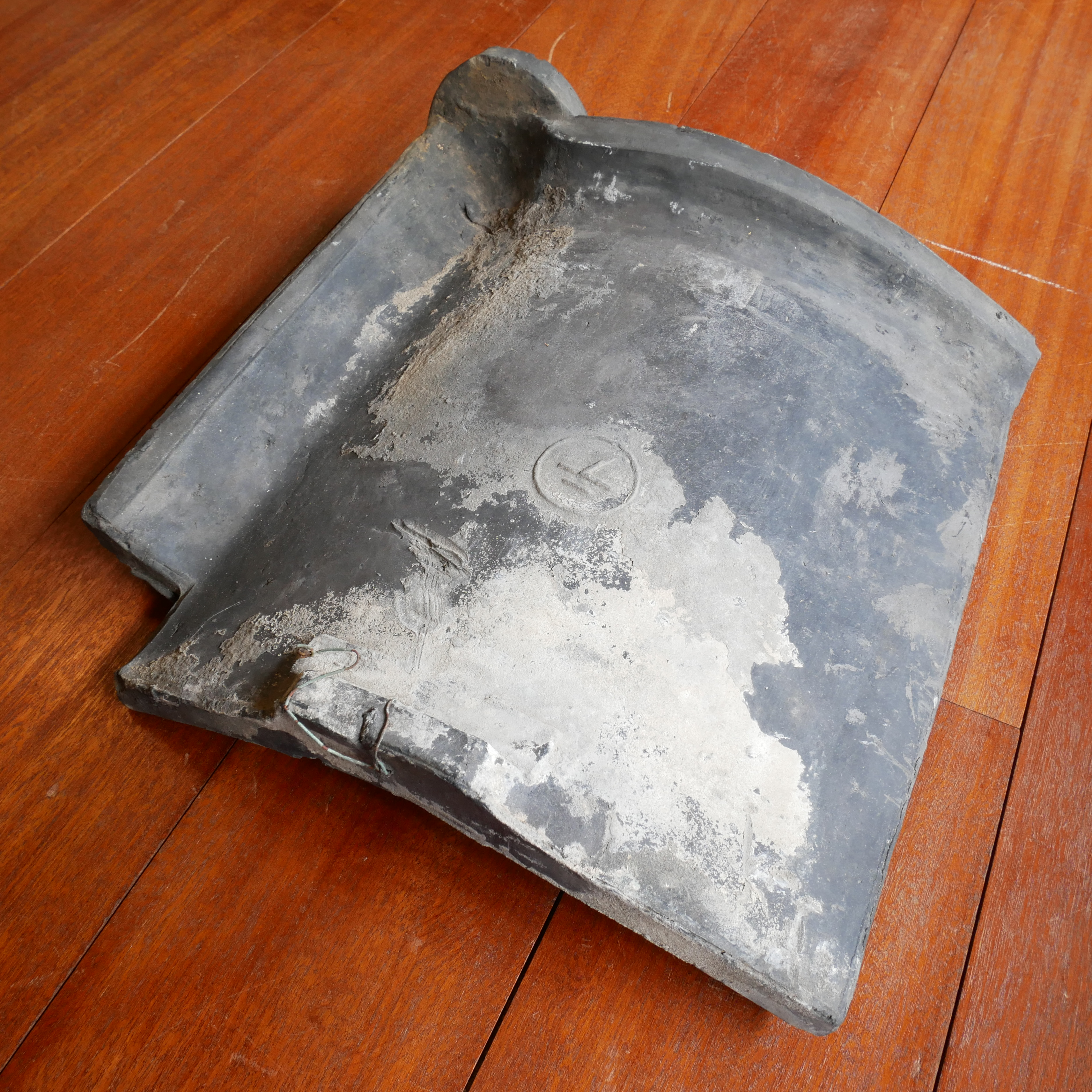 新竹州桃園郡役所警察課官舍軒瓦